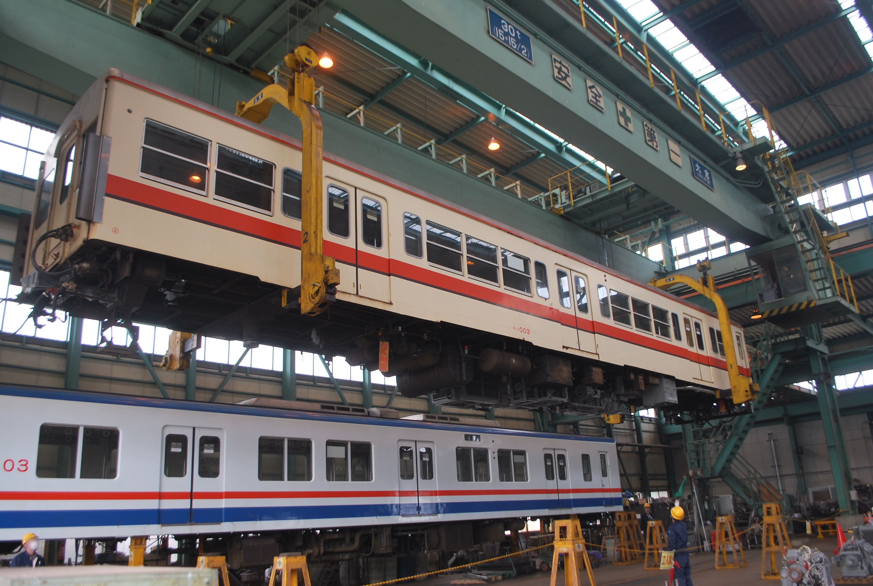 Overhead crane Kanto Mitsukaido railway vehicle base,Josa-city,Japan